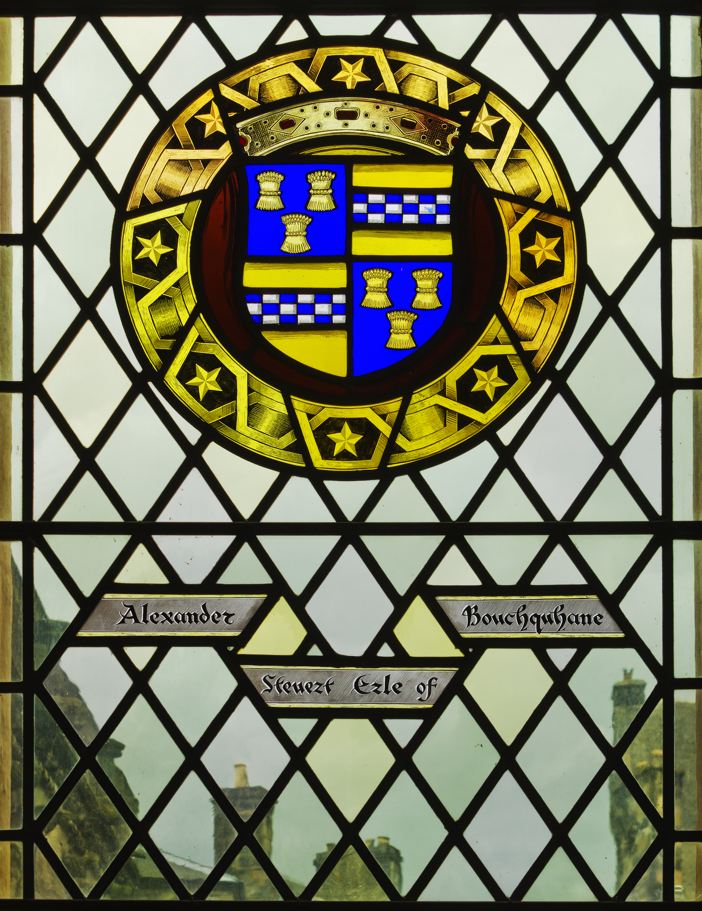 Alexander Steuert, Erle of Bouchquhane. Bouchquhane is one of the many old versions of the placename Buchan, now in Aberdeenshire. More heraldic stained glass from the great hall.